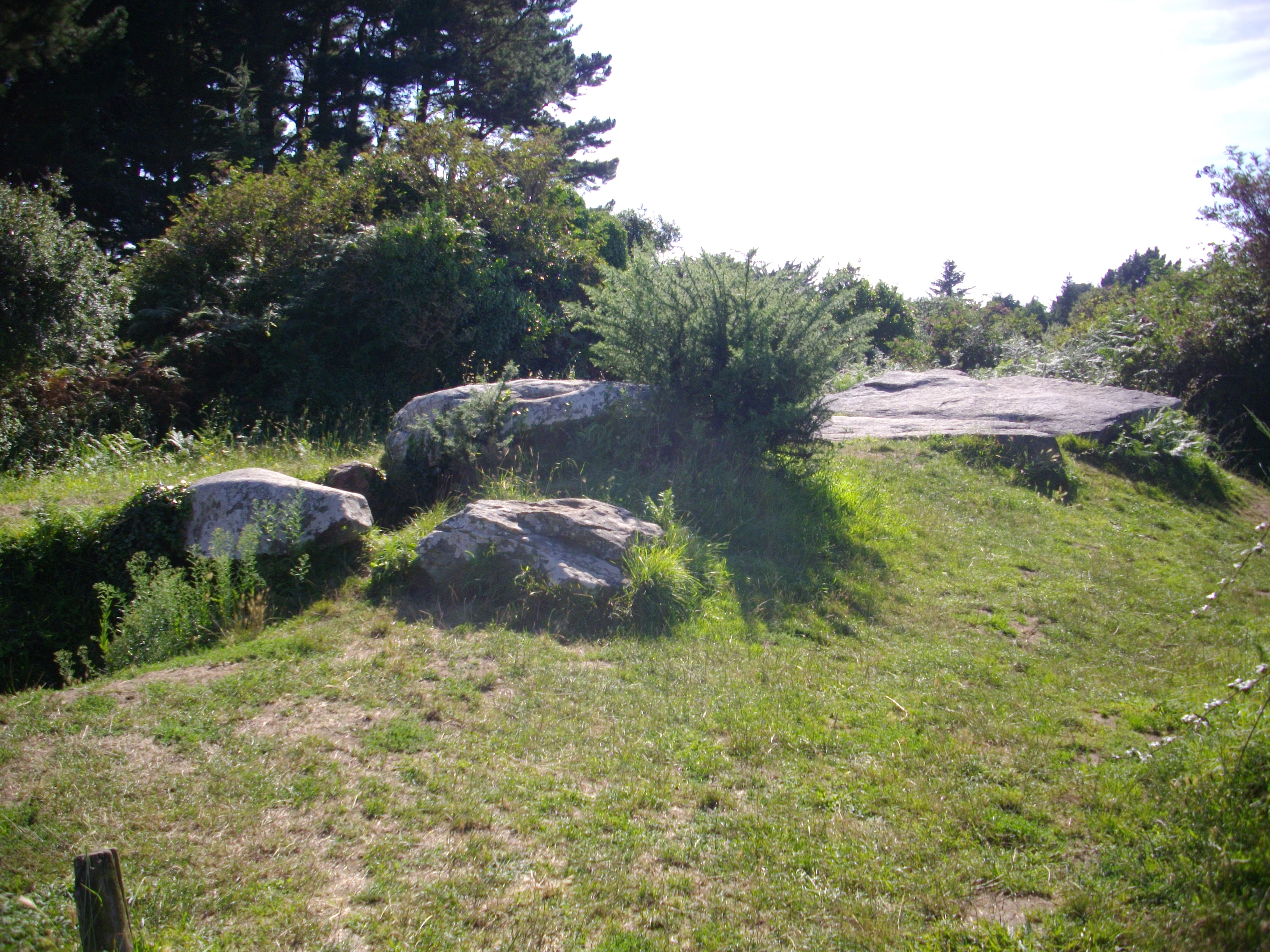 Graniol dolmen in Arzon (Morbihan, France) .